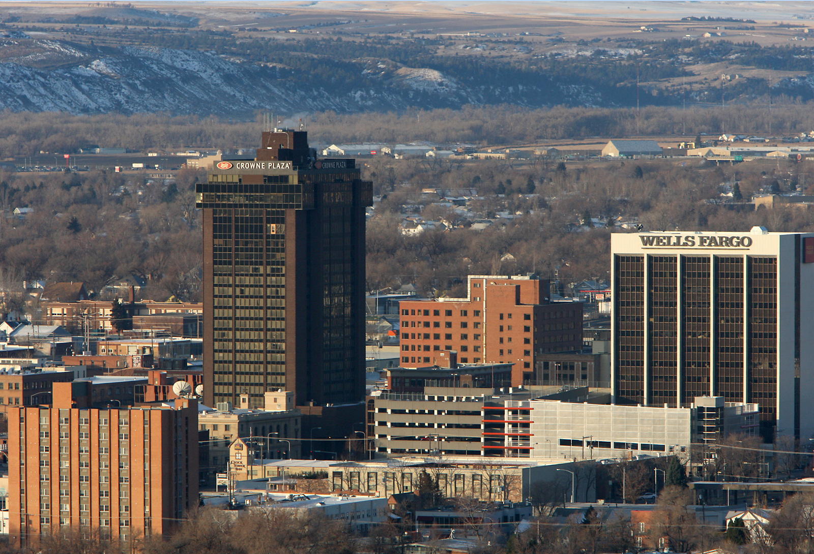 The Billings Skyline looking south from the rims.